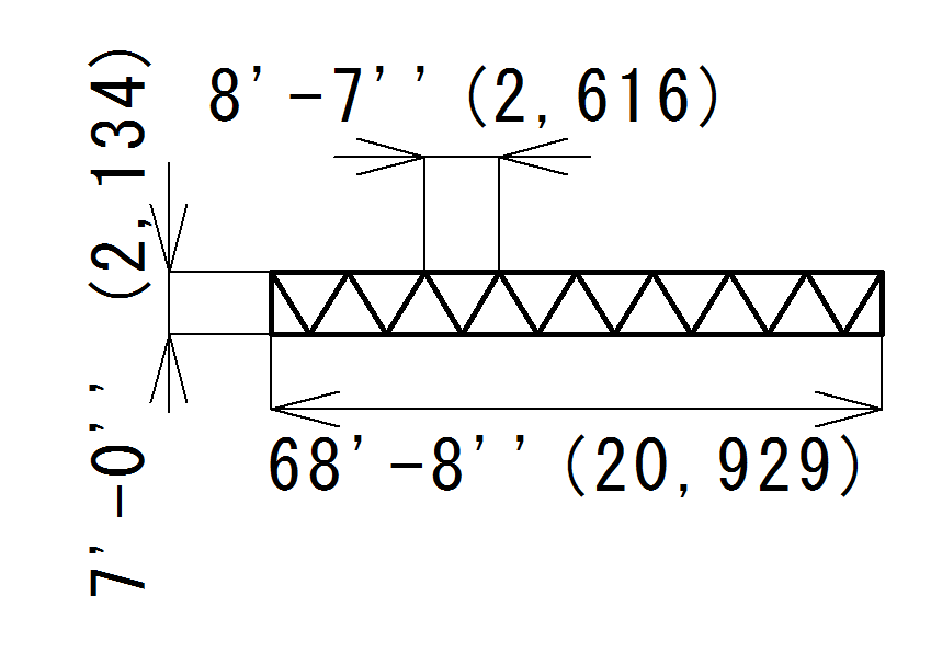 Skelton diagram of 70 feet pony warren truss designed by John England for Imperial Japanese Government Railways